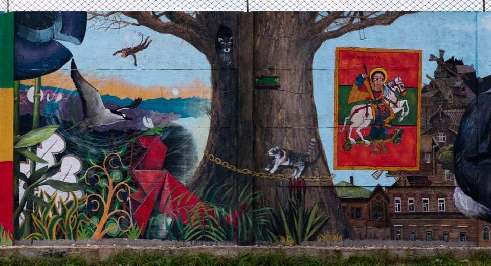 Komba Bakh freska Stena